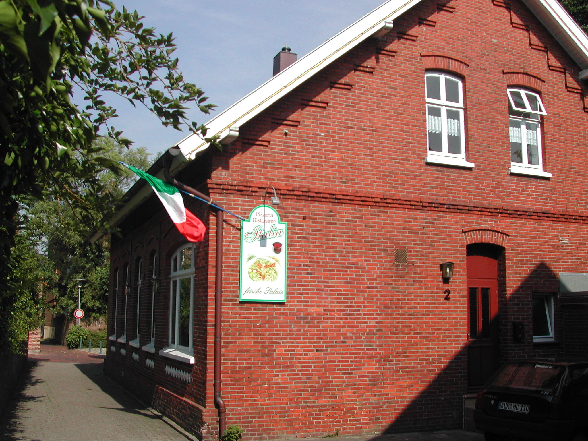 former jewish secretariat in Norden, East Frisia